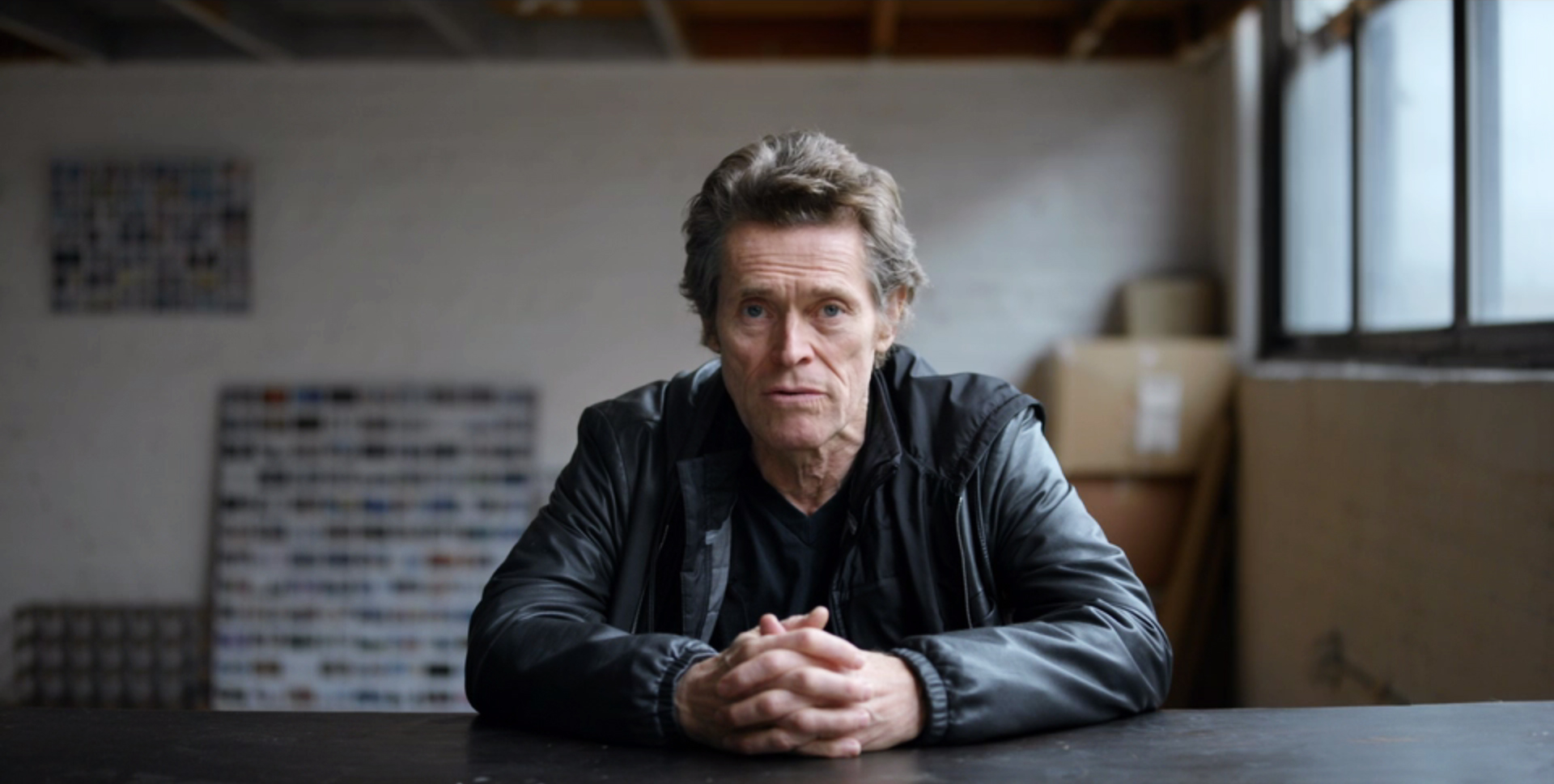 Willem Dafoe by Sasha Kargaltsev